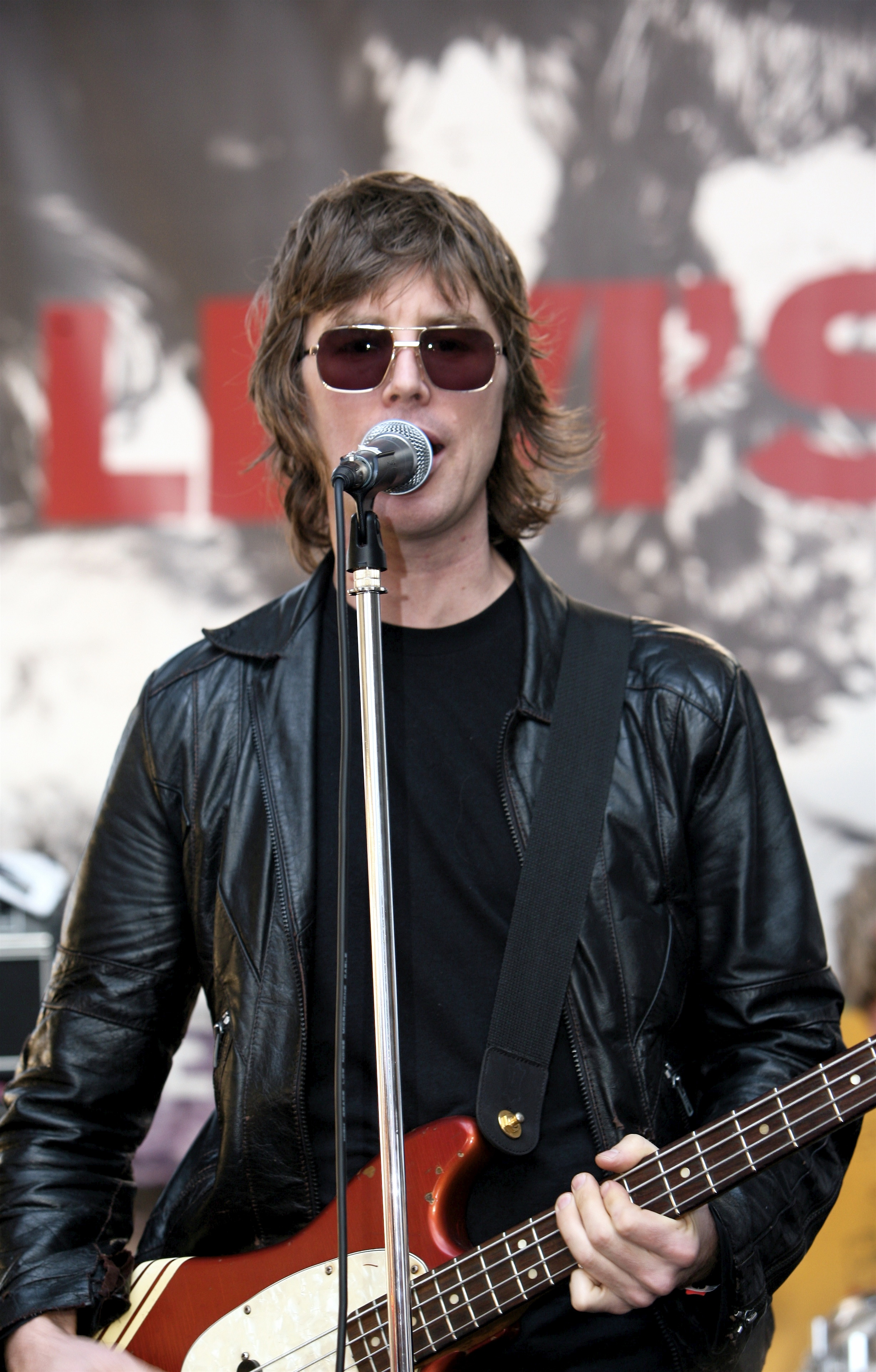 Sloan performing at South by Southwest. Photographed by Kris Krug.